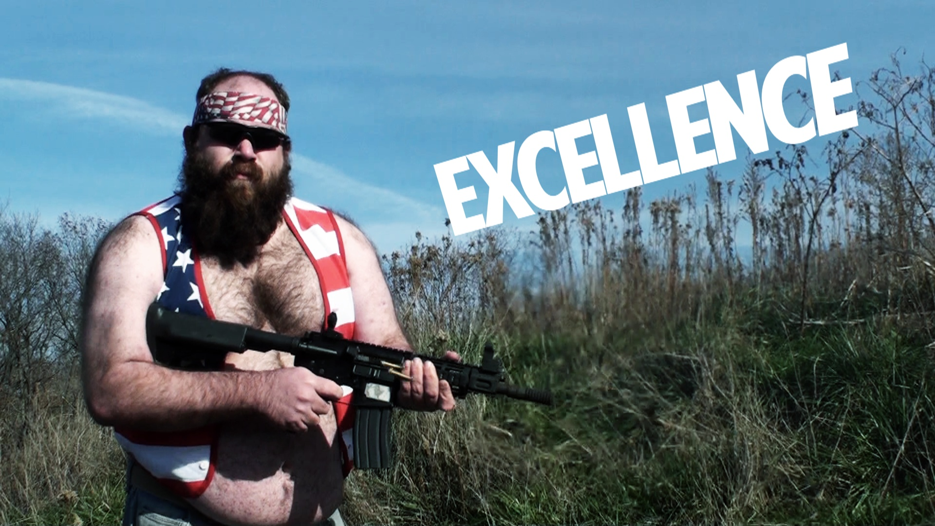 Randy Broshankle is one of the founders of the CarniK Con Channel